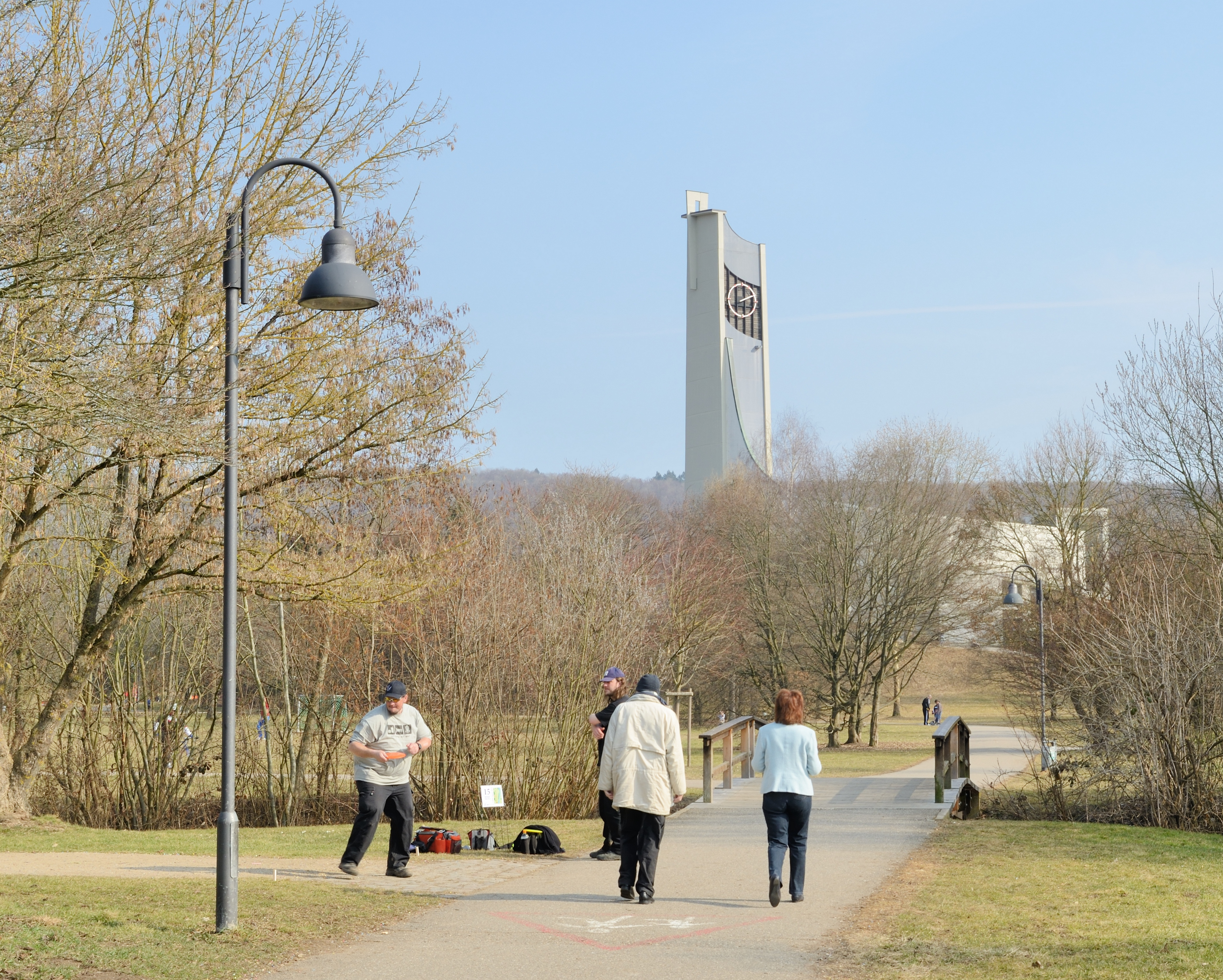 Lörrach: Grüttpark